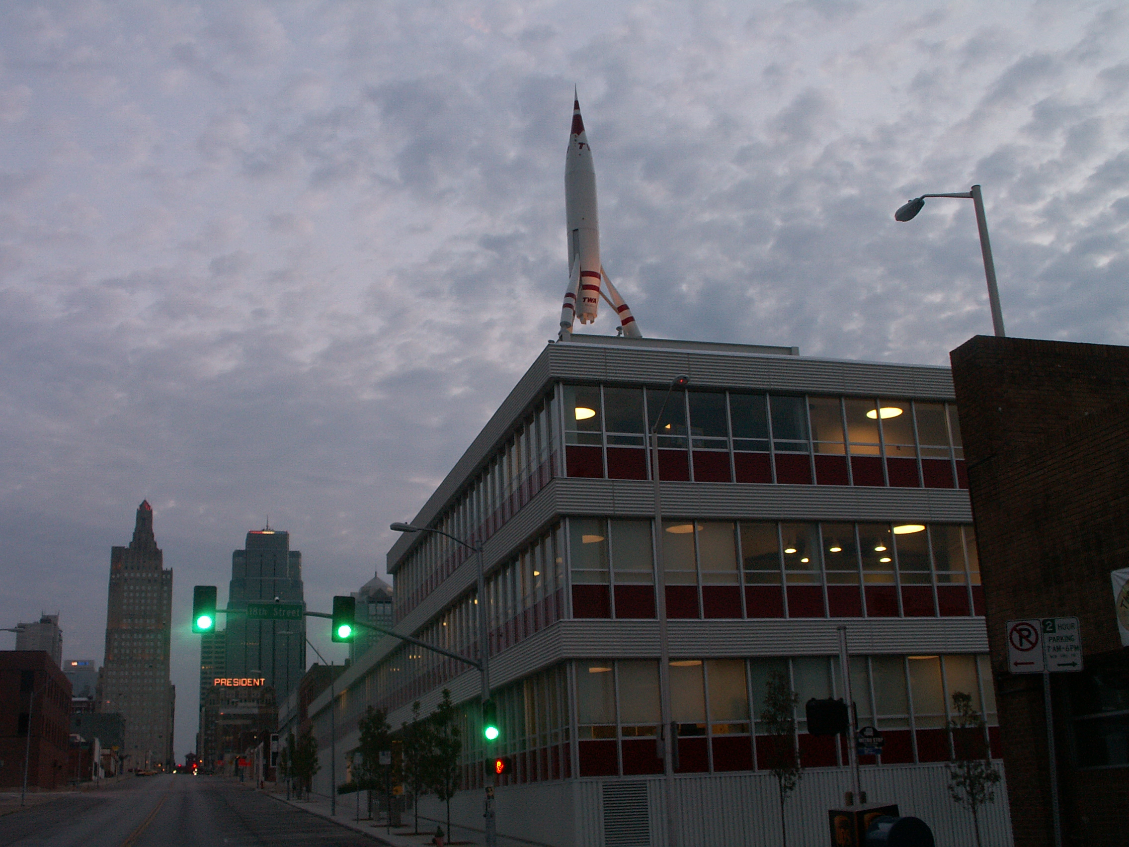 TWA Headquarters with TWA Moonliner in Kansas City, Missouri. Photo by poster in September 2007.